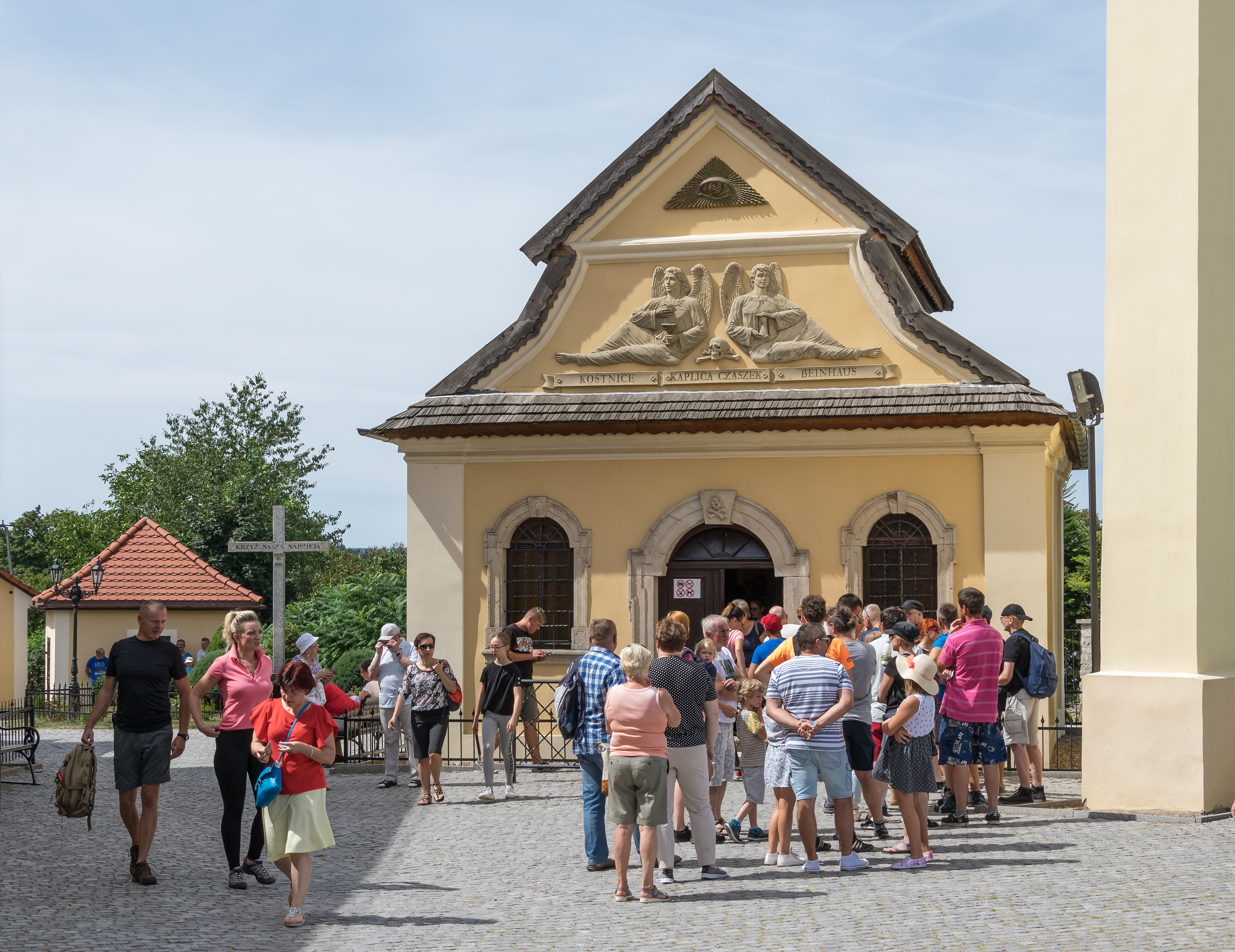 Skulls Chapel in Kudowa-Zdrój Wikidata has entry Q2879740 with data related to this item.